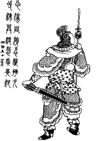 Qing dynasty portrait of Wen Chou